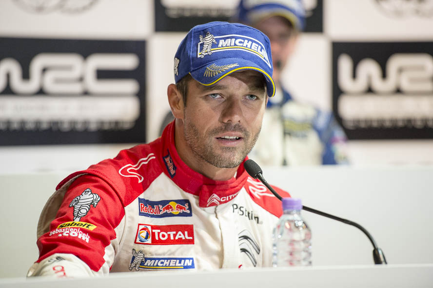 Wales Rally Great Britain 2012 Citroen Total WRT,Citroen Total World Rally Team,Motorsport,Pressekonferenz,Rally,Rallye,Sebastien Loeb,WRC,Wales Rally GB